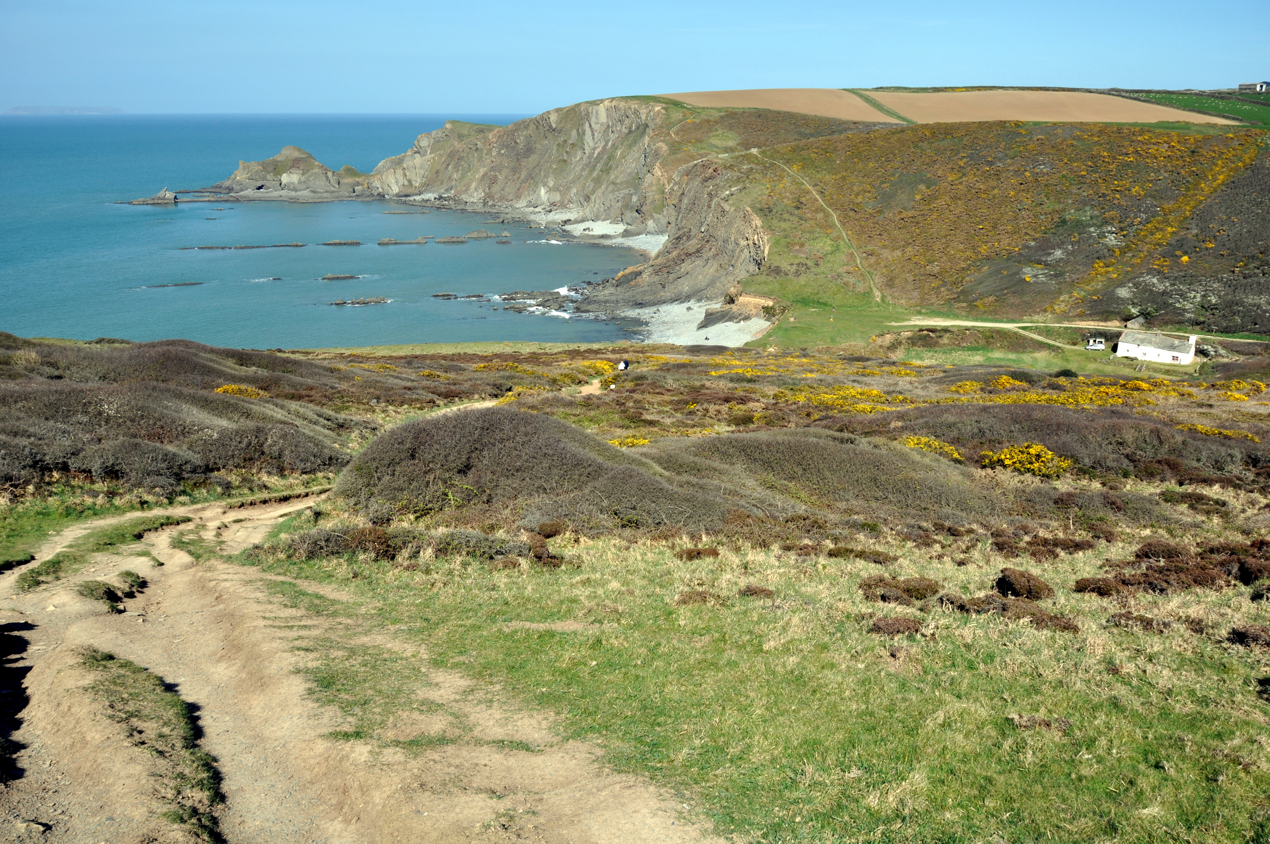 View from Blegberry Cliff